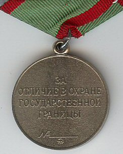 Reverse of the Medal for Distinguished Service in Defence of the State Frontiers